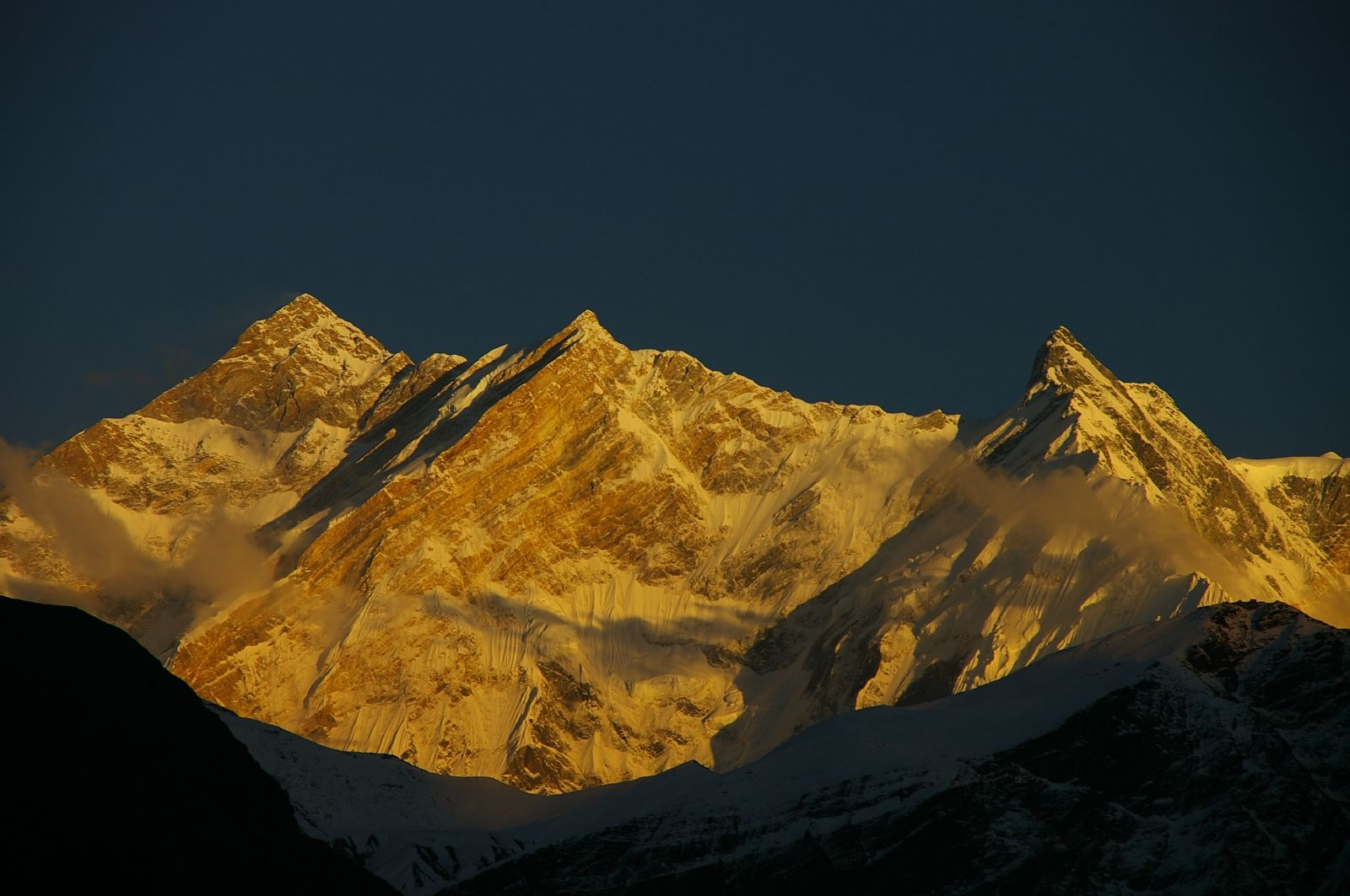 Annapurna I (left) and Fang (right) from the west